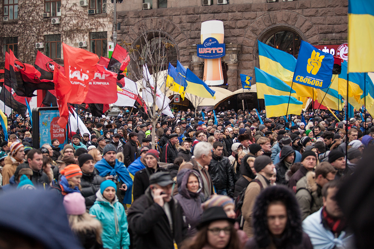 Euromaidan in Kyiv on 1 December 2013 by Nwssa Gnatoush